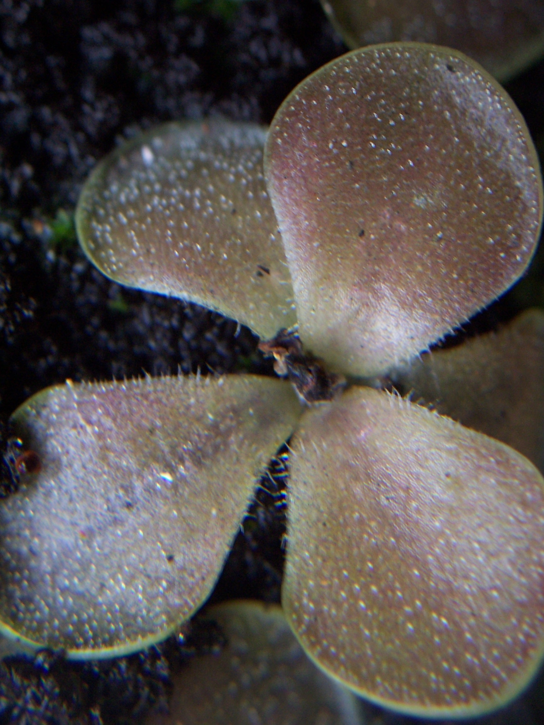 Pinguicula 'Sethos' ruined by mildew.